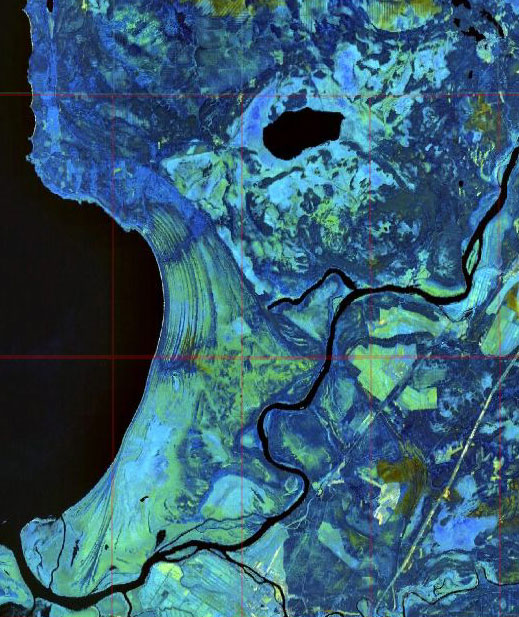 lower reaches of the Svir River